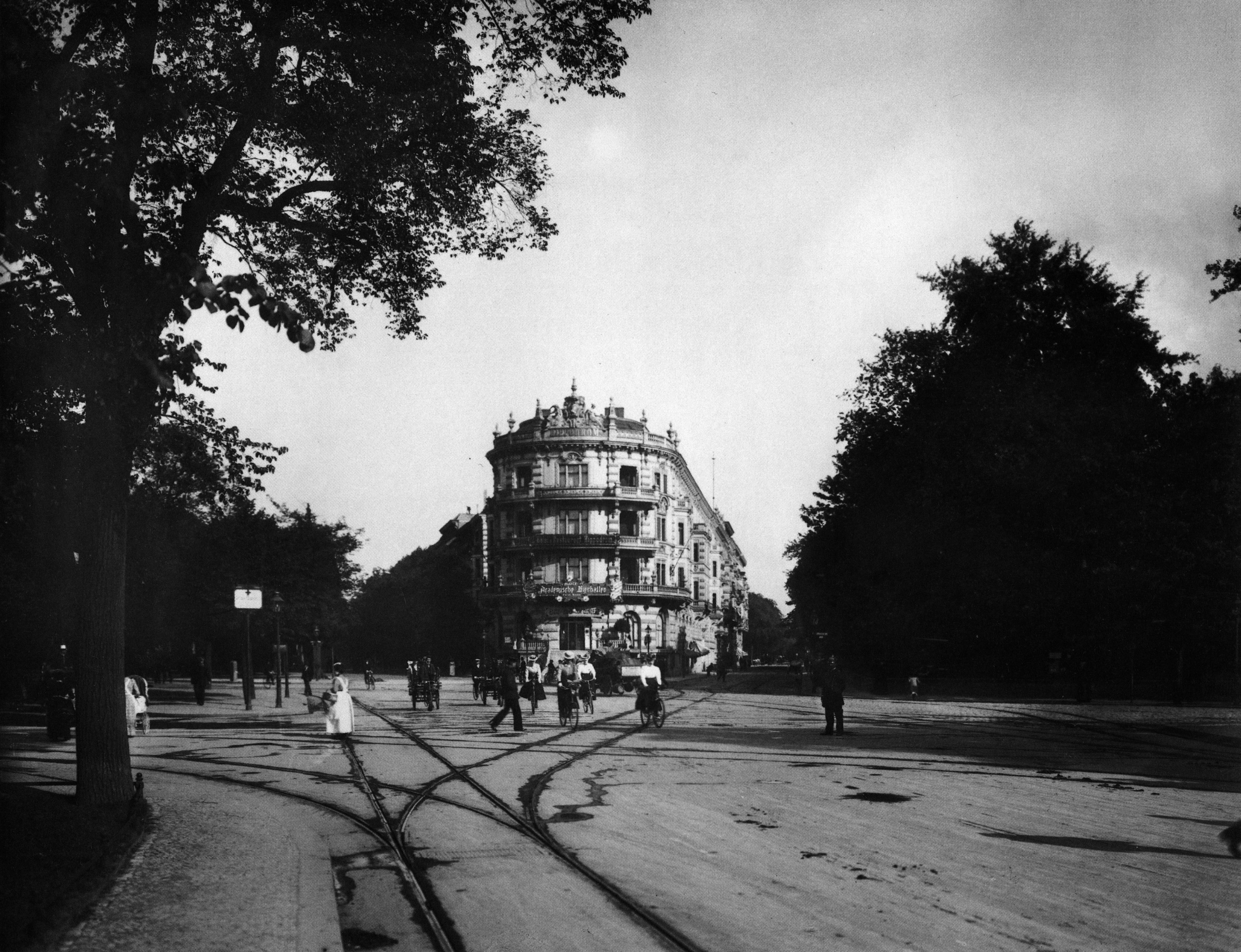 The square Am Knie (“at the knee”, now Ernst-Reuter-Platz) in the city of Charlottenburg, now part of Berlin.